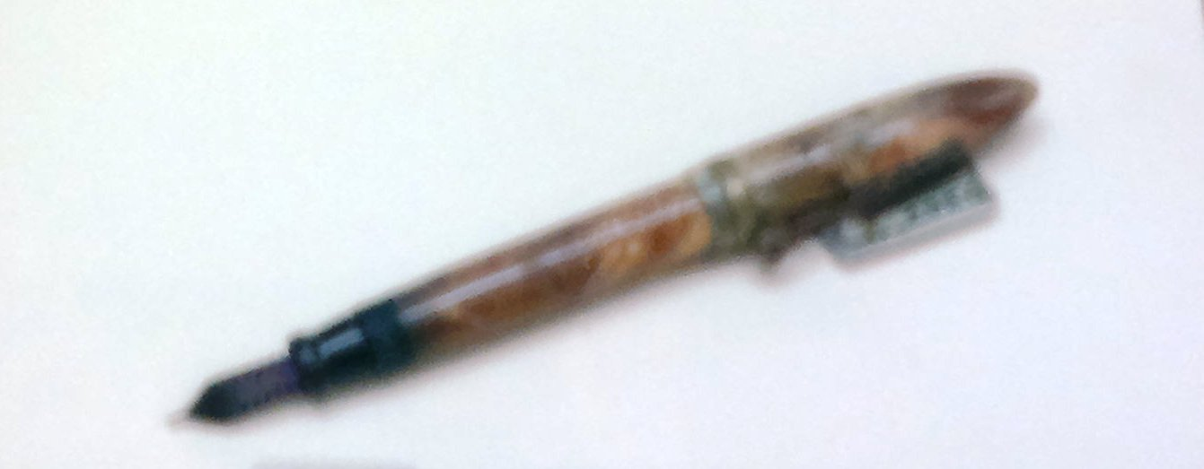 Pen owned by Salman Mumtaz